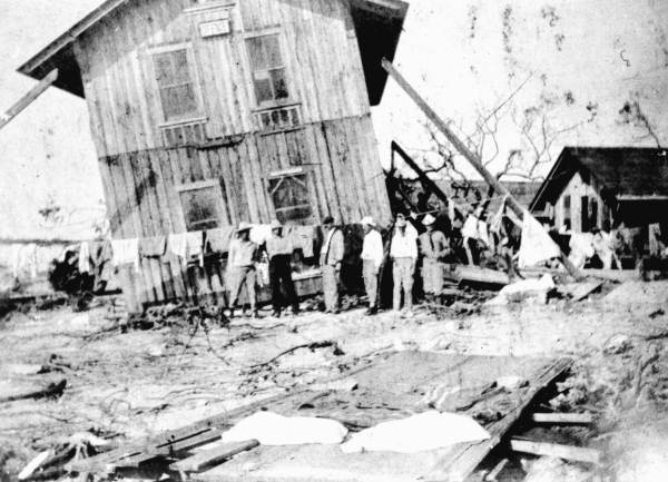 Damage in Marathon, Florida, from a hurricane in October 1909